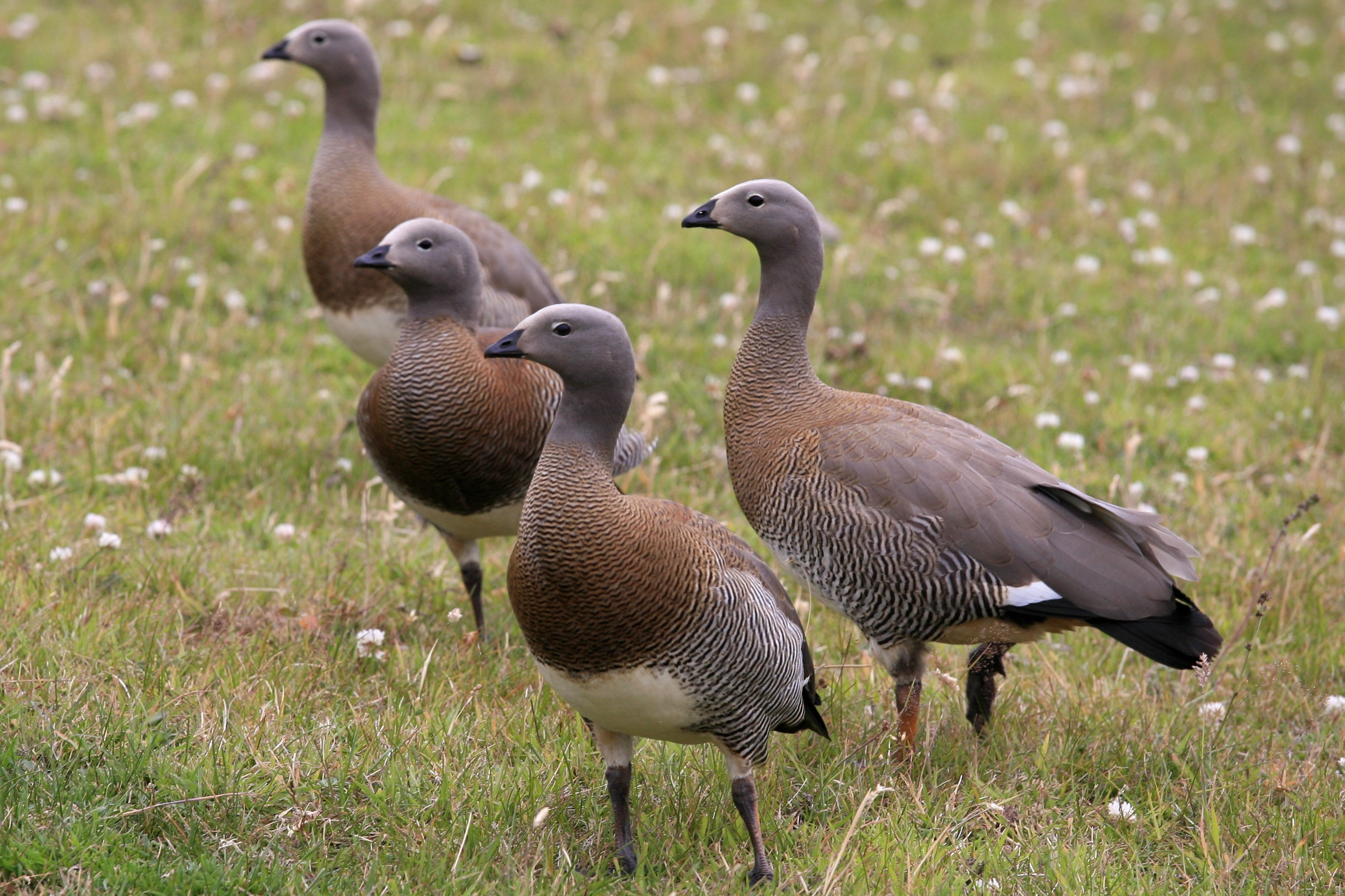 Juvenile Ashy-headed Geese in Torres del Paine, Magallanes and Antartica Chilena Region, Chile, Patagonia.